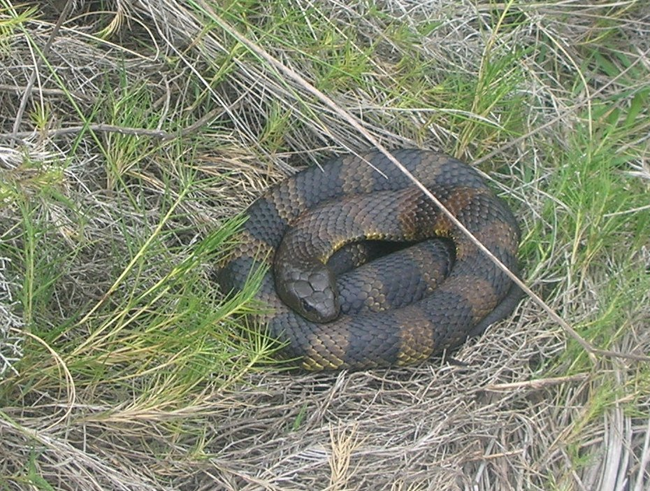 Tiger snake in Australia